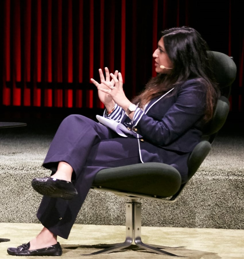 Former CNN journalist Monita Rajpal at the Copenhagen Fashion Summit